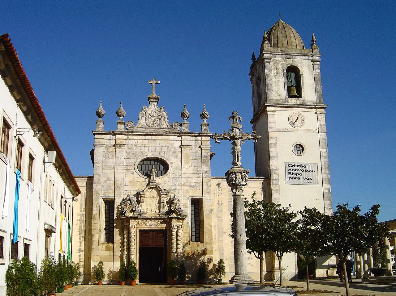 See where this picture was taken. [?]